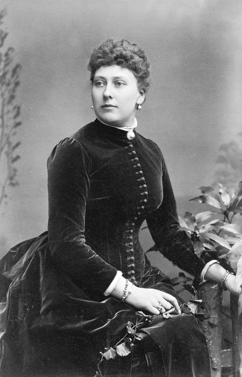 Princess Beatrice seated, holding a piece of ivy or similar on her lap with her right hand. Long-sleeved dress with buttons from neck to waist.